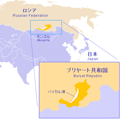 Buryat Republic in Asian continent.